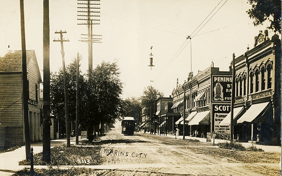 Downtown Marine City, Michigan. Unknown year.